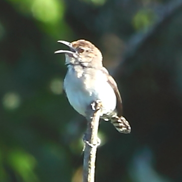 Tooth-billed Wren at Alta Floresta - MT - Brazil